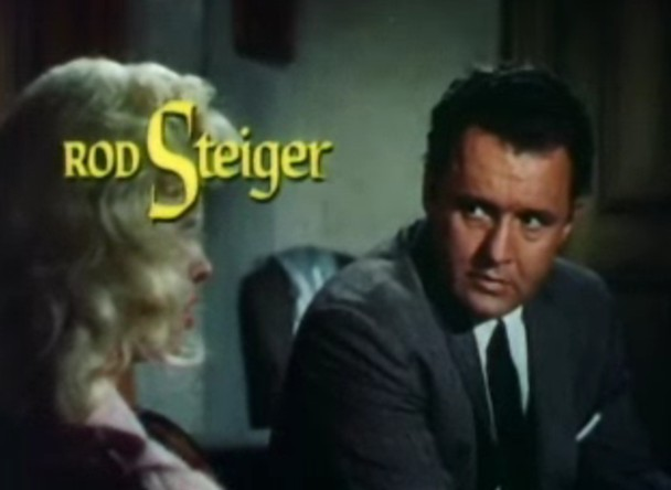 Cropped screenshot of Rod Steiger from the trailer for the film The Unholy Wife.